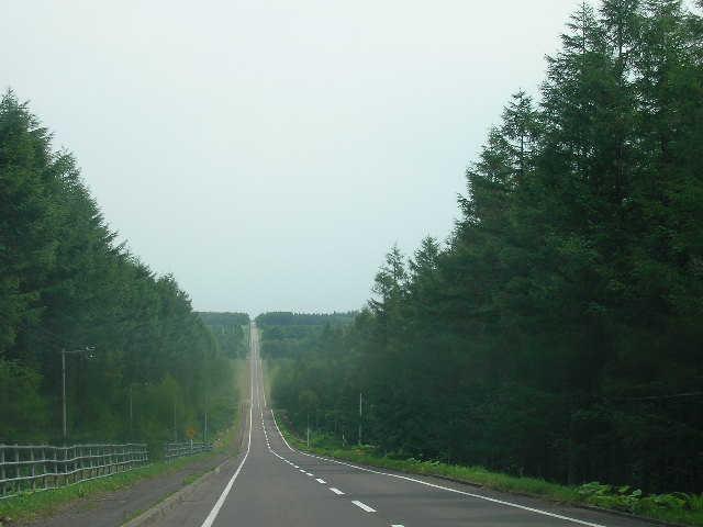 The environs KAIYOUDAI, Nakashibetsu City Hokkaido JAPAN